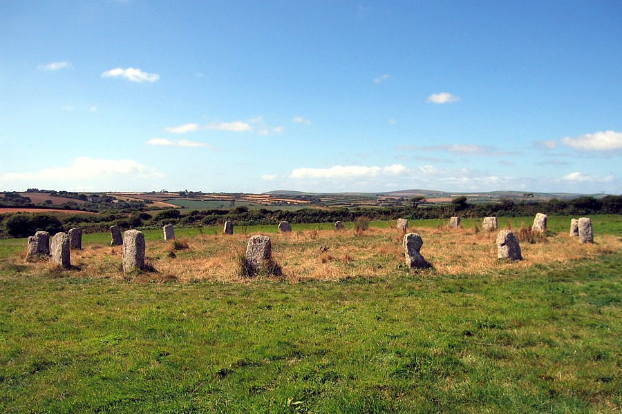 Merry Maidens - Stone Circle - Cornwall - UK